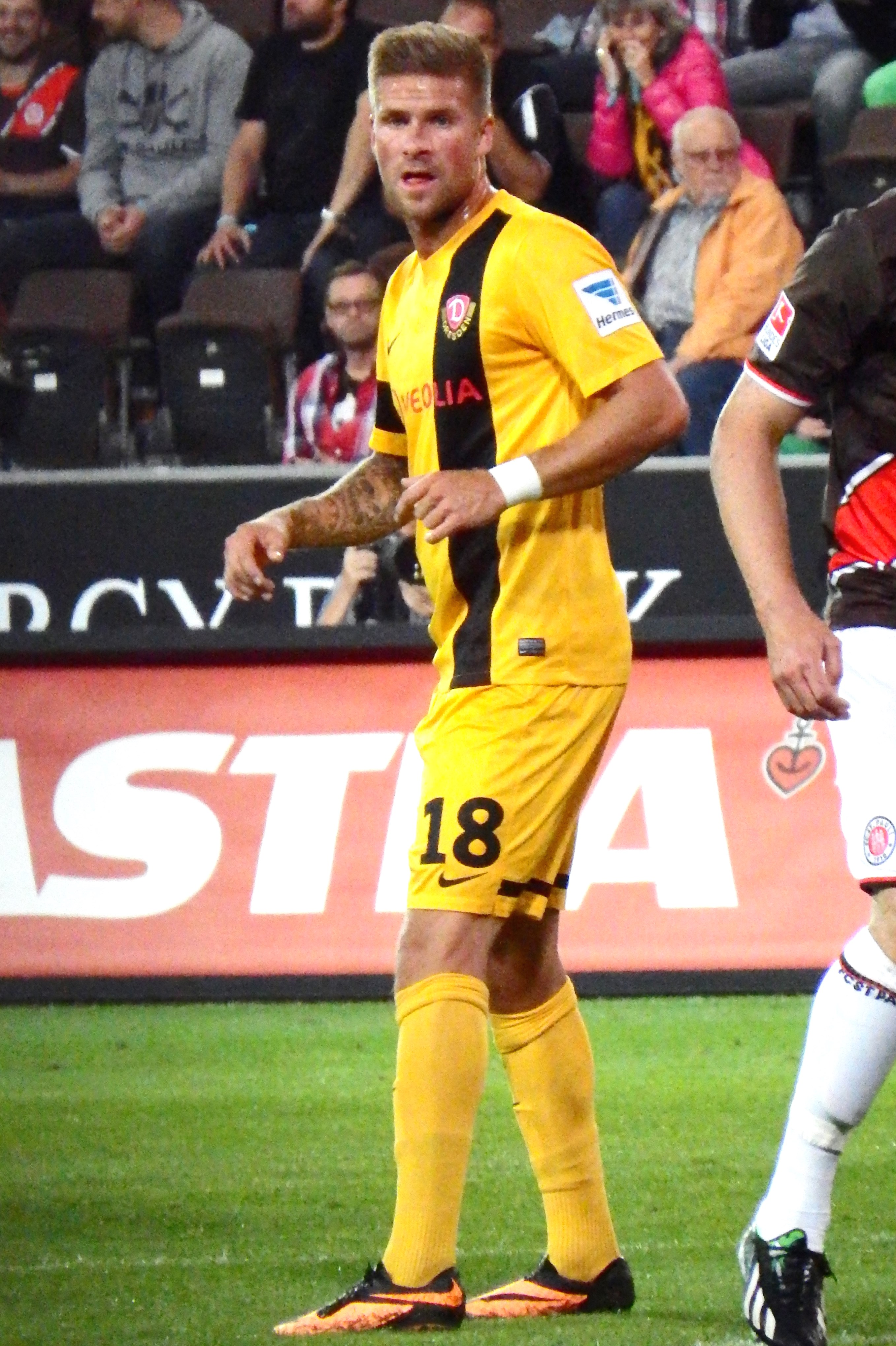 Tobias Kempe as Player of Dynamo Dresden